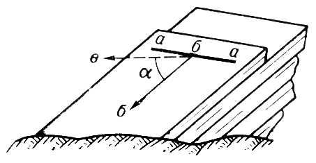 Strike and dip